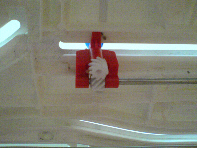 Mechanics of Stiga tabley hockey; similar to the Gears of Puck Master by Block Past, Finland.